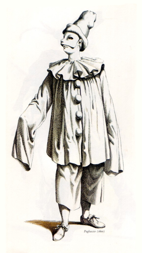 Pagliaccio year 1600